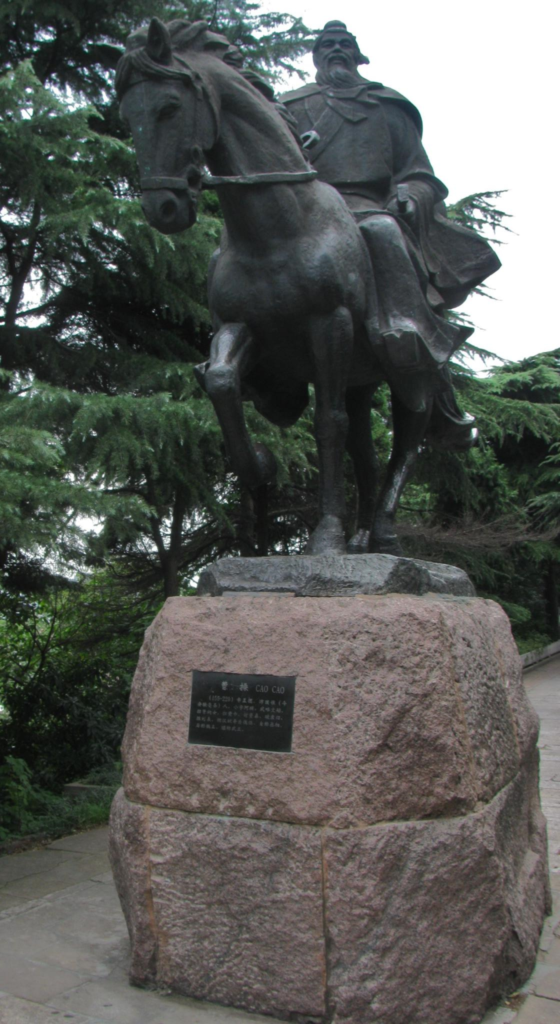 Statue of Cao Cao, a warlord of the late Eastern Han Dynasty who laid the foundation of the state of Cao Wei during the Three Kingdoms period in China